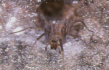 female Spiricoelotes urumensis from Okinawa.